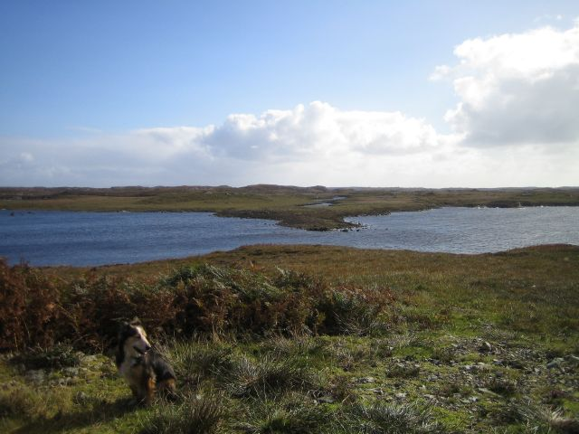 Loch Theirmeadail at Benbecula, Outer Hebrides, Scotland